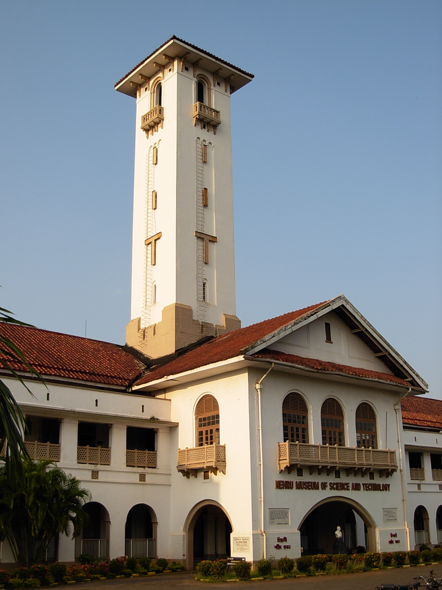 Shaheed Bhawan (Institute Old Building) in IIT Kharagpur